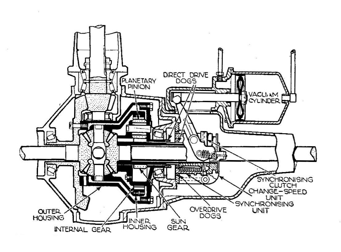 Rear axle with overdrive unit (Autocar Handbook, 13th ed, 1935).jpg